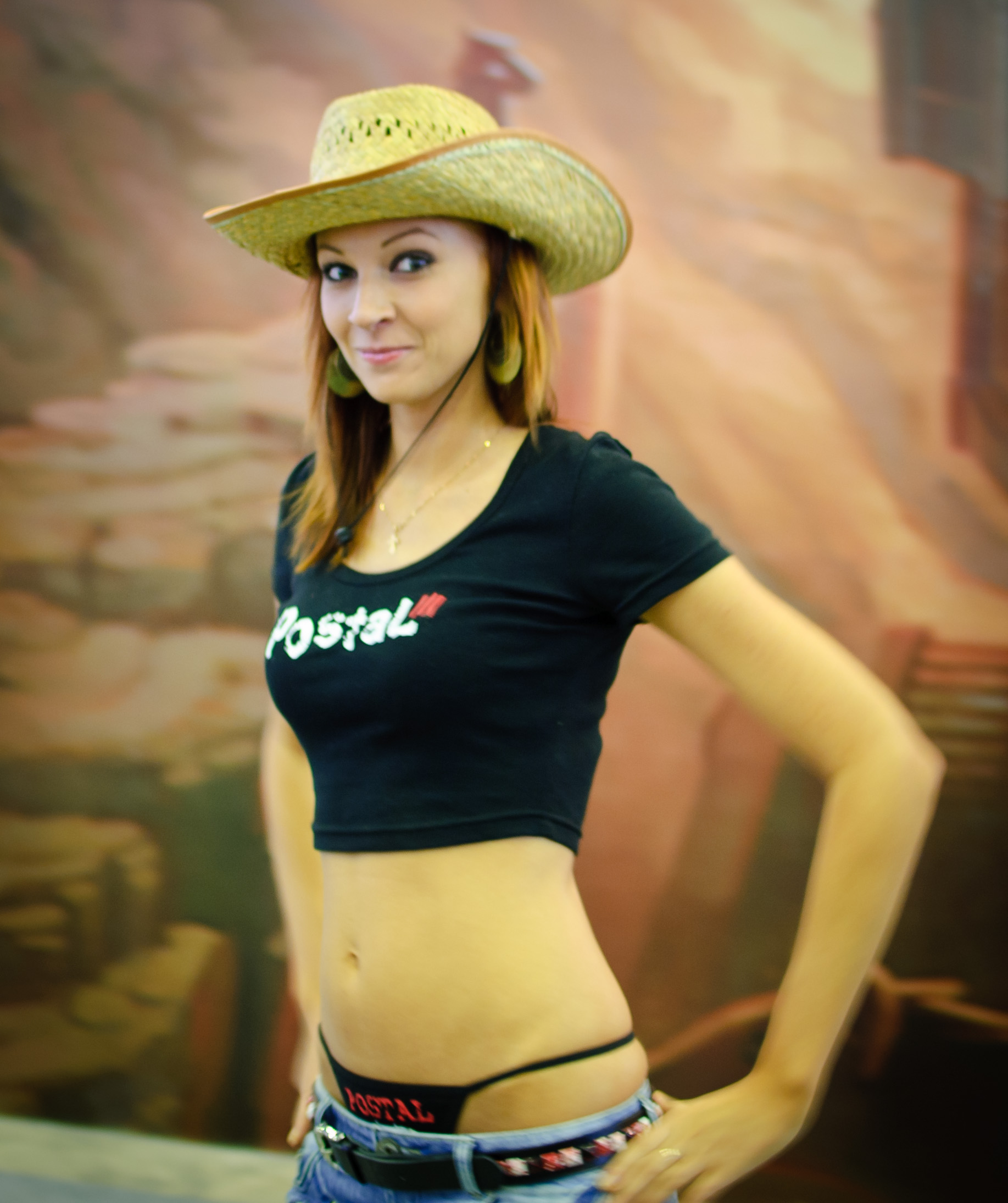 Girls of Igromir 2010